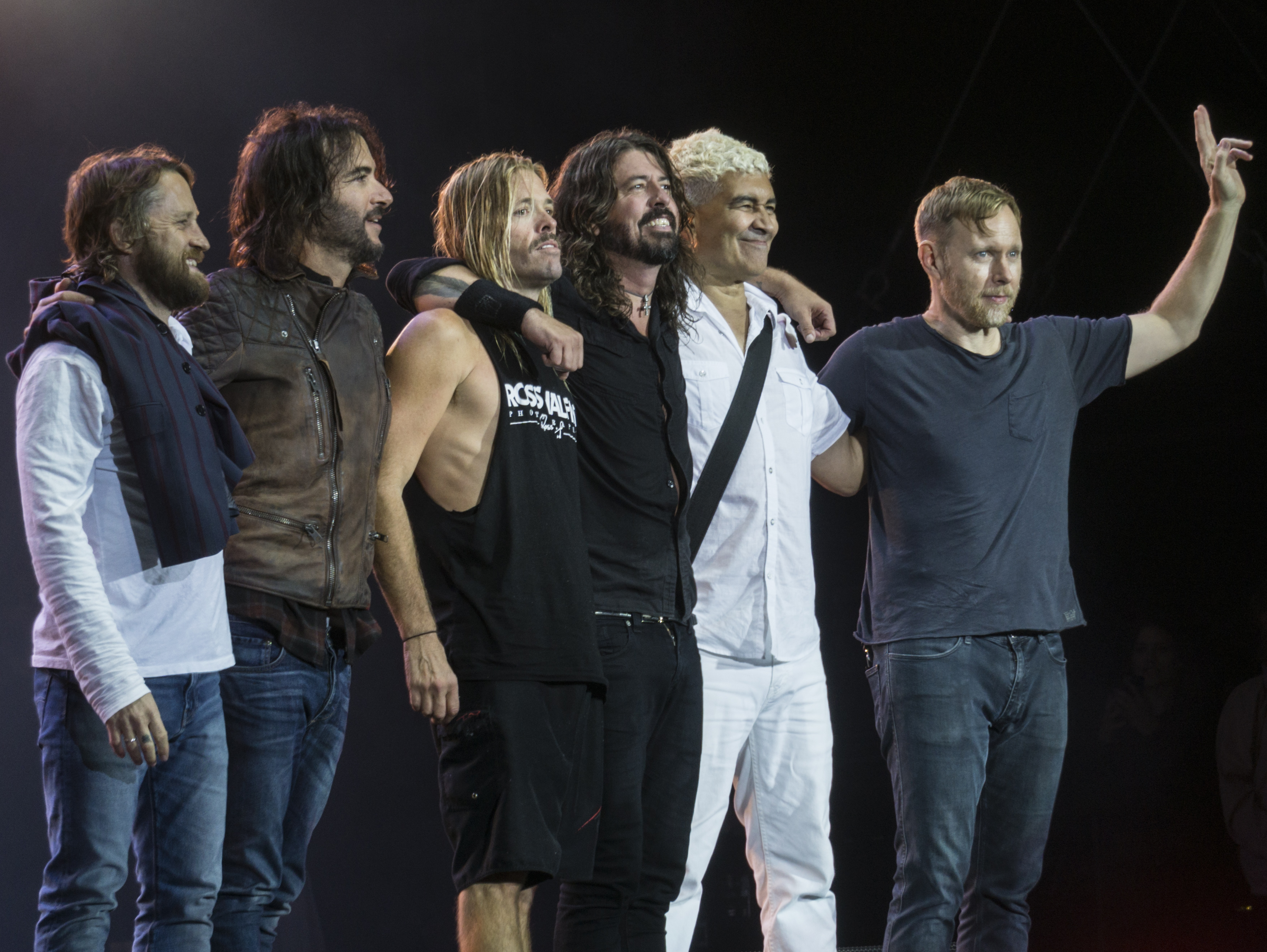 Performance of American rock band Foo Fighters at Lollapalooza Berlin 2017.